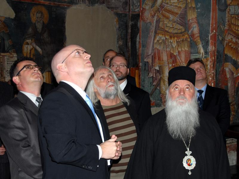 US ambassador Reeker touring the Holy Mother of God “Peribleptos” Church with macedonia president Ivanov, Metropolitan Timotej and Director of the Protection of Cultural Heritage, Pasko Kuzman.